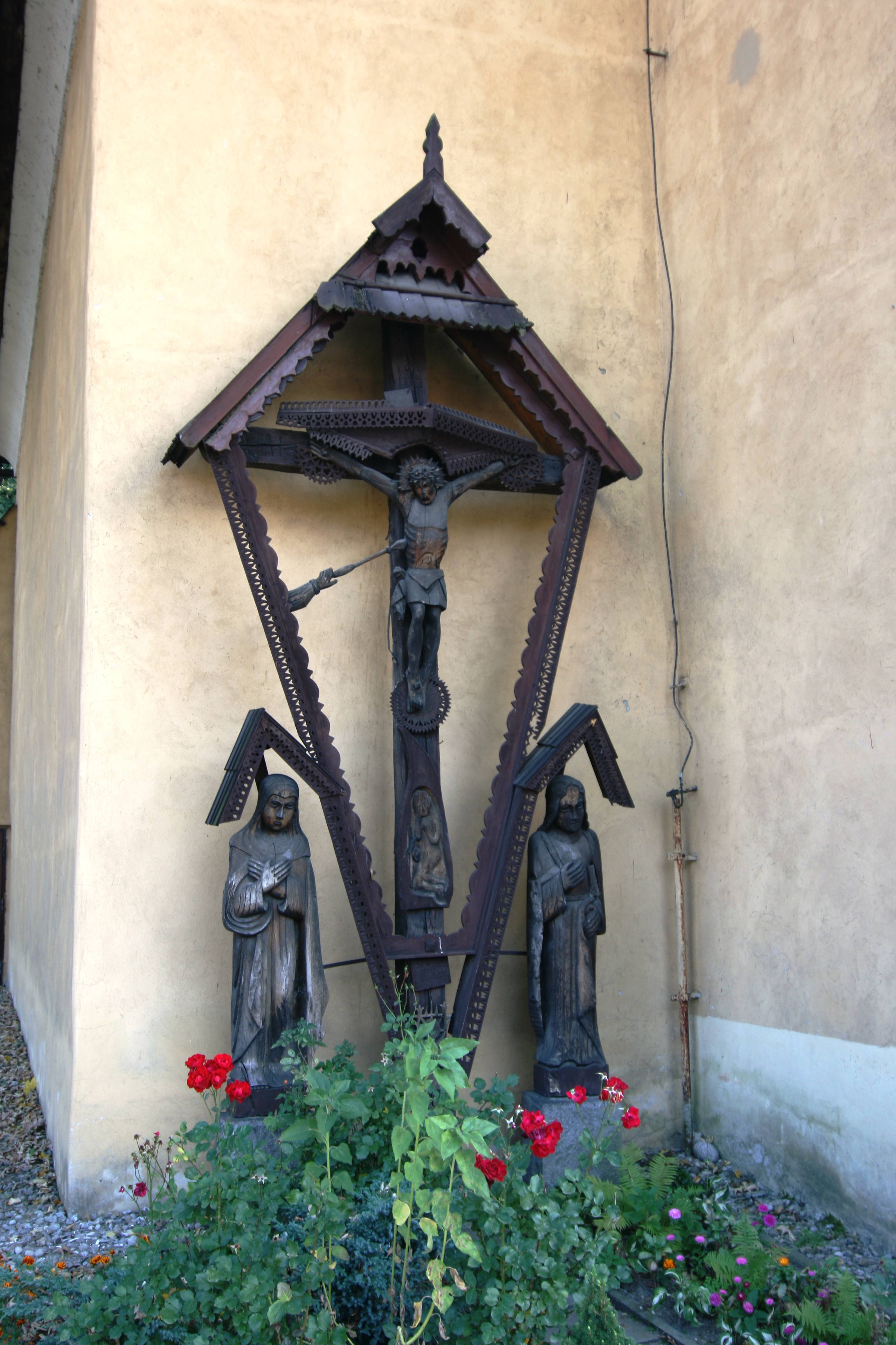 Fold sculpture "Passion" on the side of the church